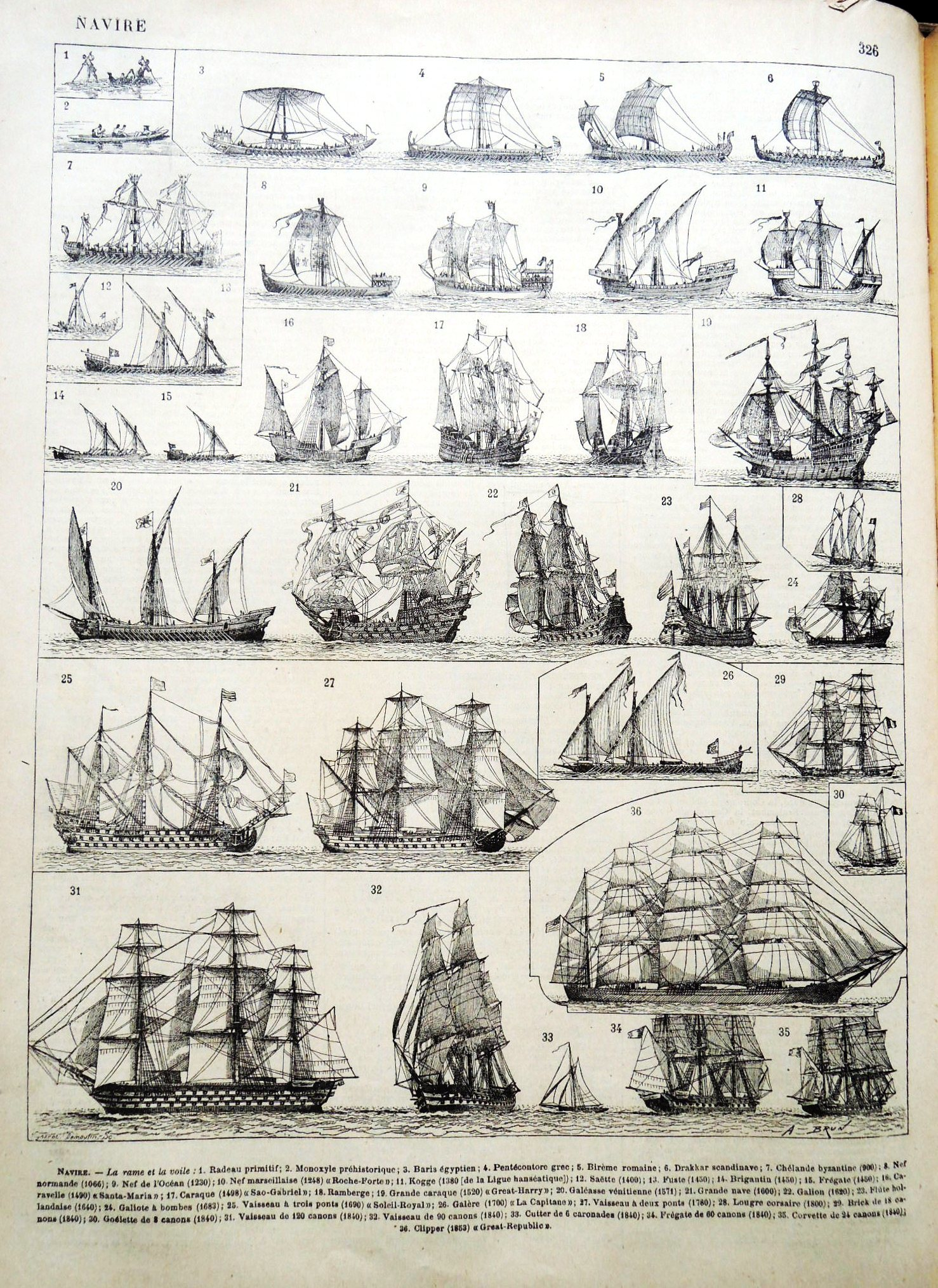 Historical ships